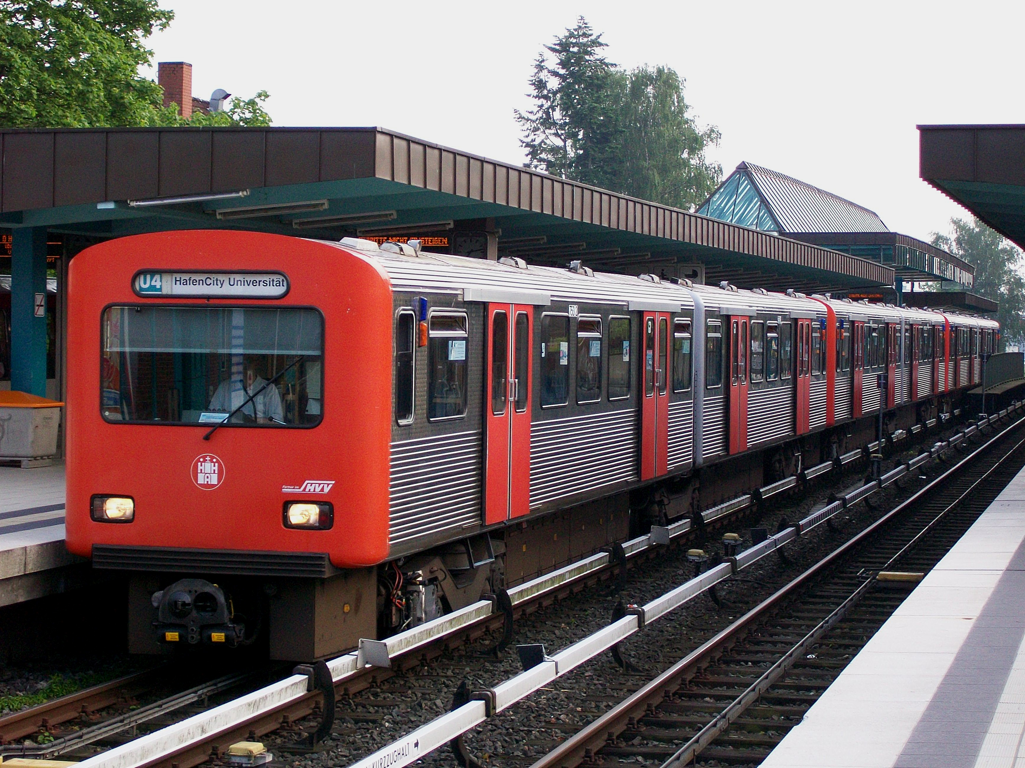 A DT2 train in Farmsen station, waiting for driving into the depot.